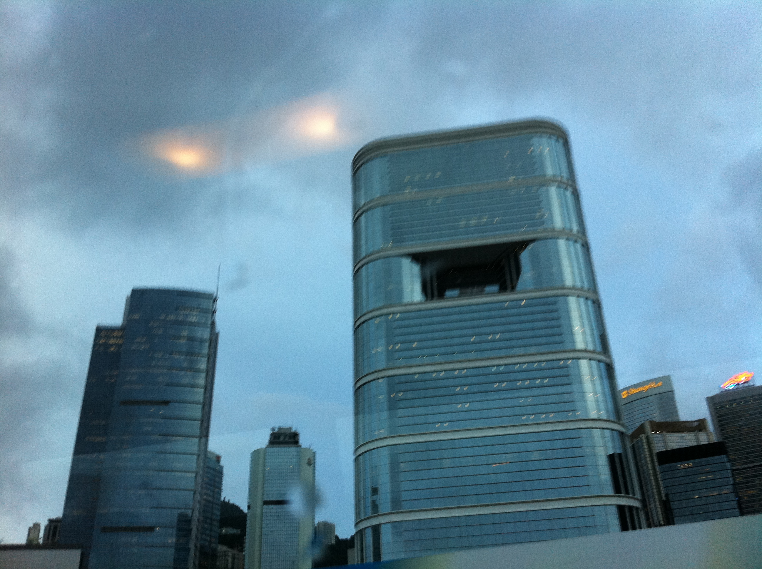 香港zh:金鐘zh:添美道1號, 中信大廈, Citic Tower, Fenwick Pier Street, Wan Chai, Hong Kong